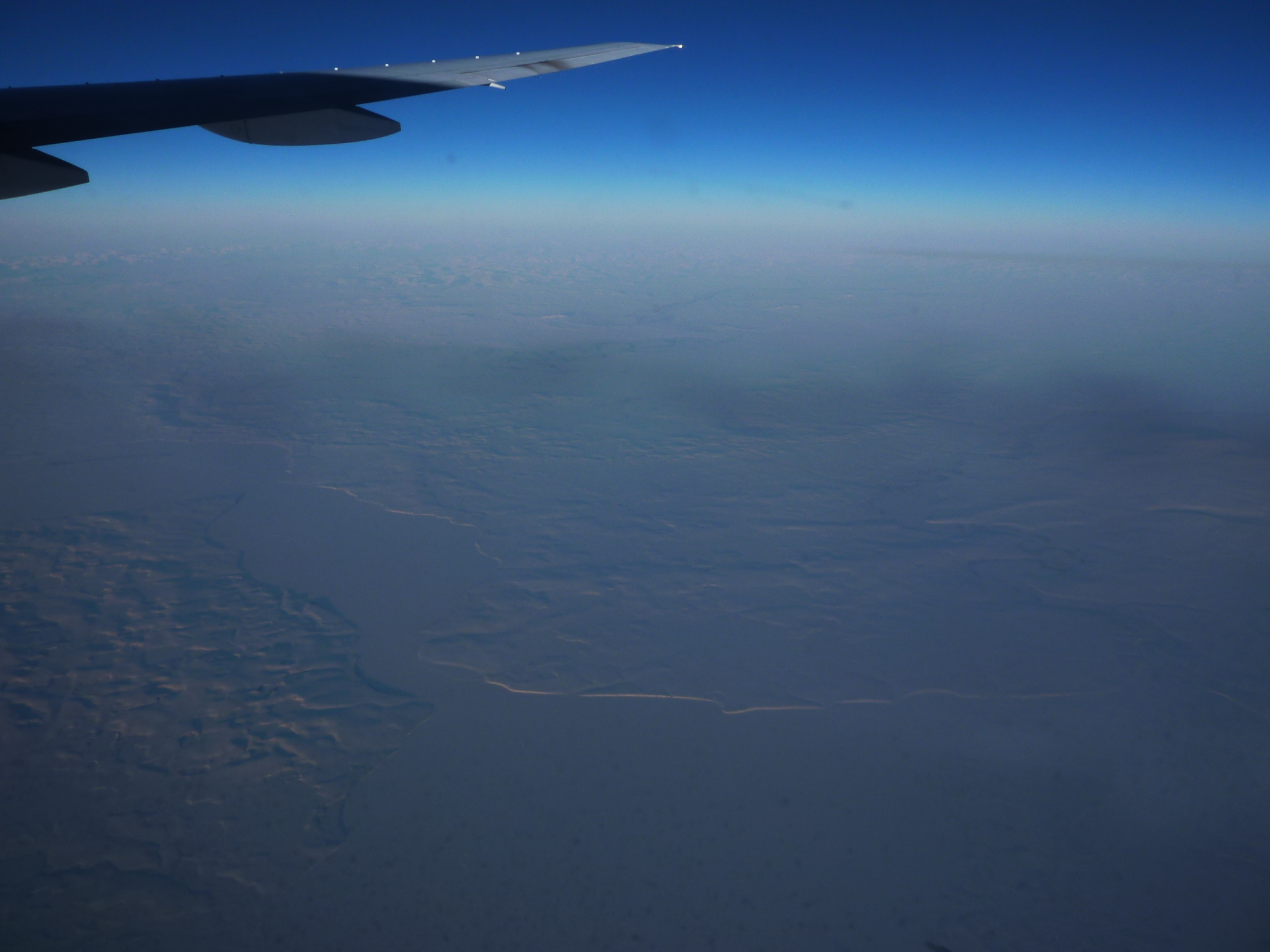 The estuary of the Kanchalan River, north of Anadyr, Chukotka, Russia. Looking north or north west. Photo taken from an AA aircraft on a non-stop ORD-PVG flight